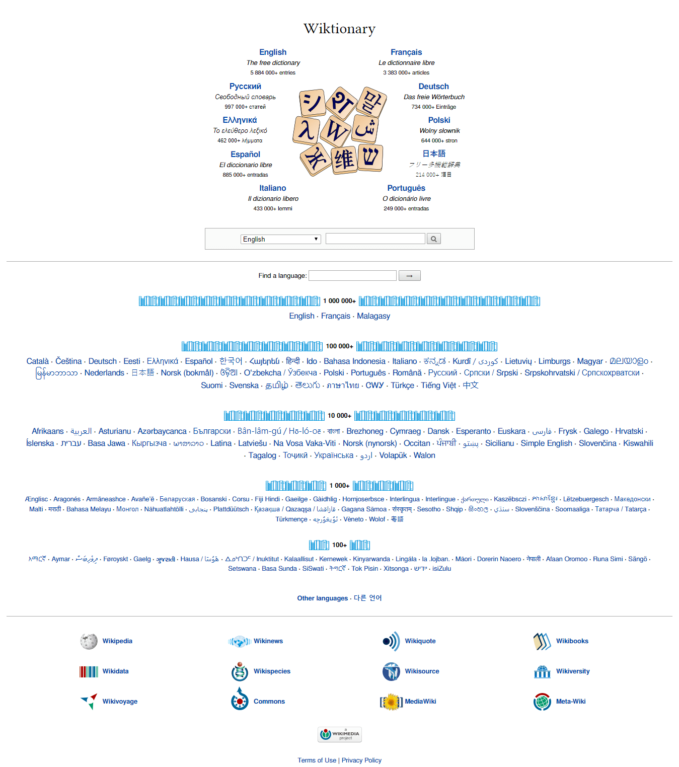 Screenshot of the multilingual Wiktionary portal at